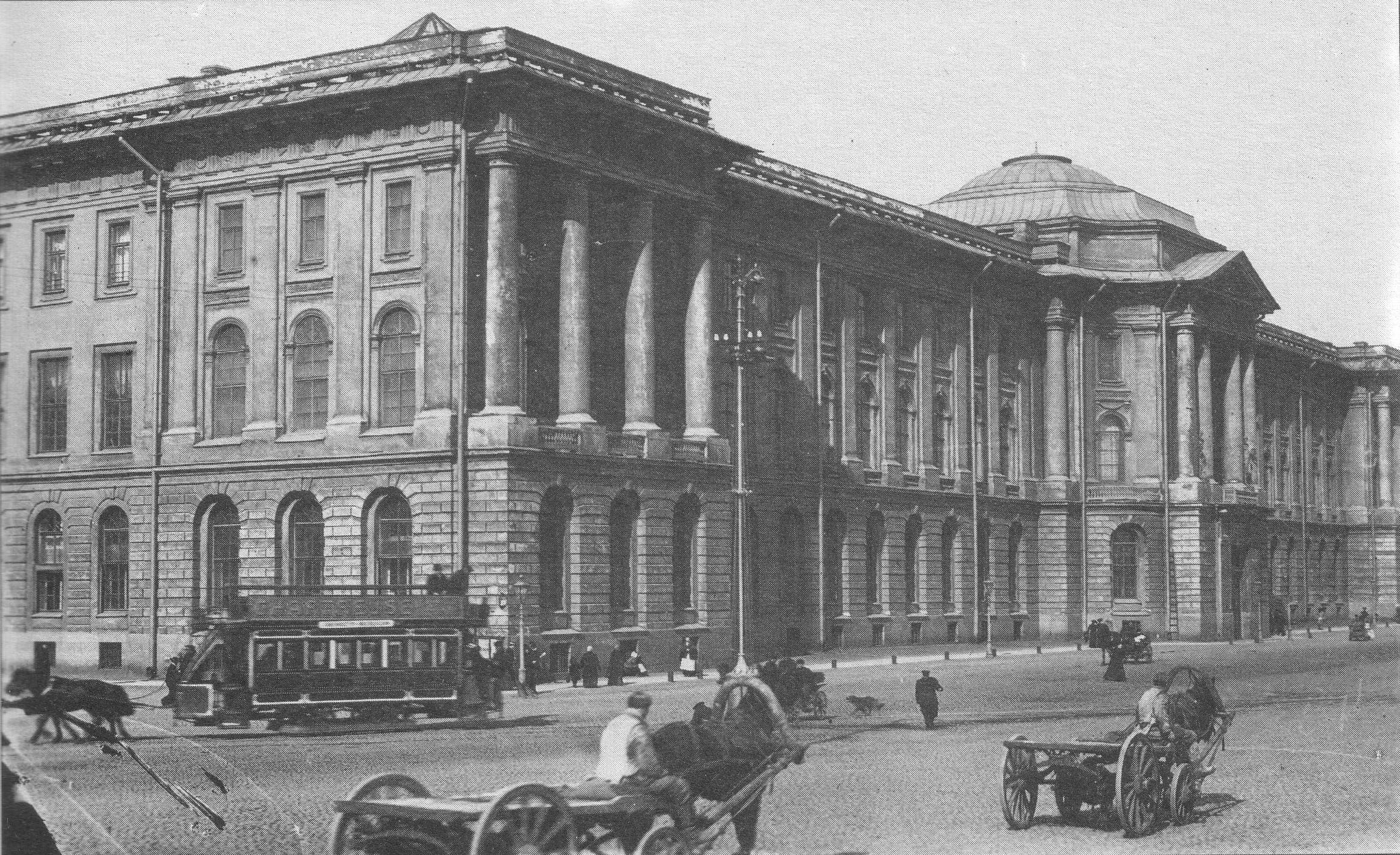 Saint Petersburg (Russia), Imperial Academy of Arts.